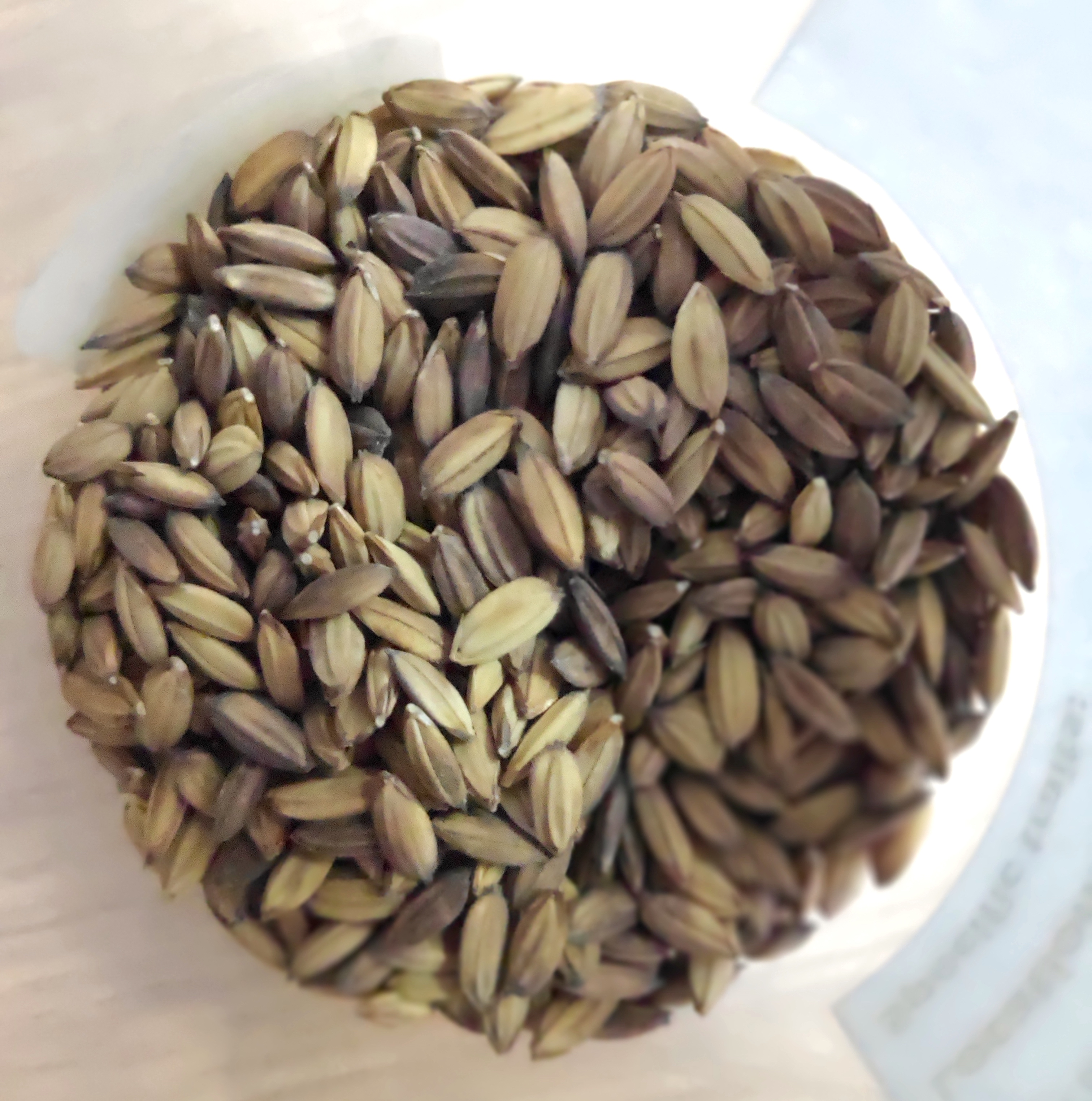 Jumli Marshi Rice / Oryzasativa.